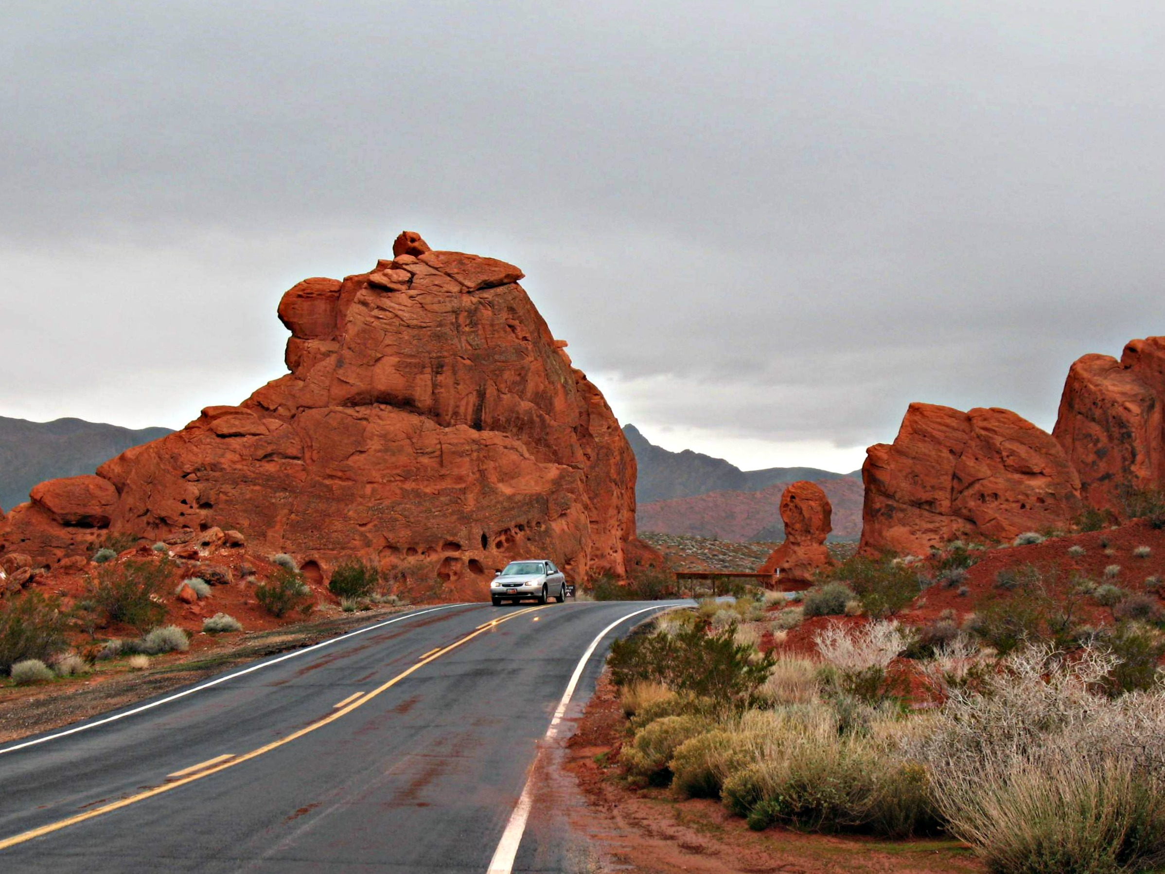 Outside of Las Vegas an hour's drive away is Valley of Fire State Park.